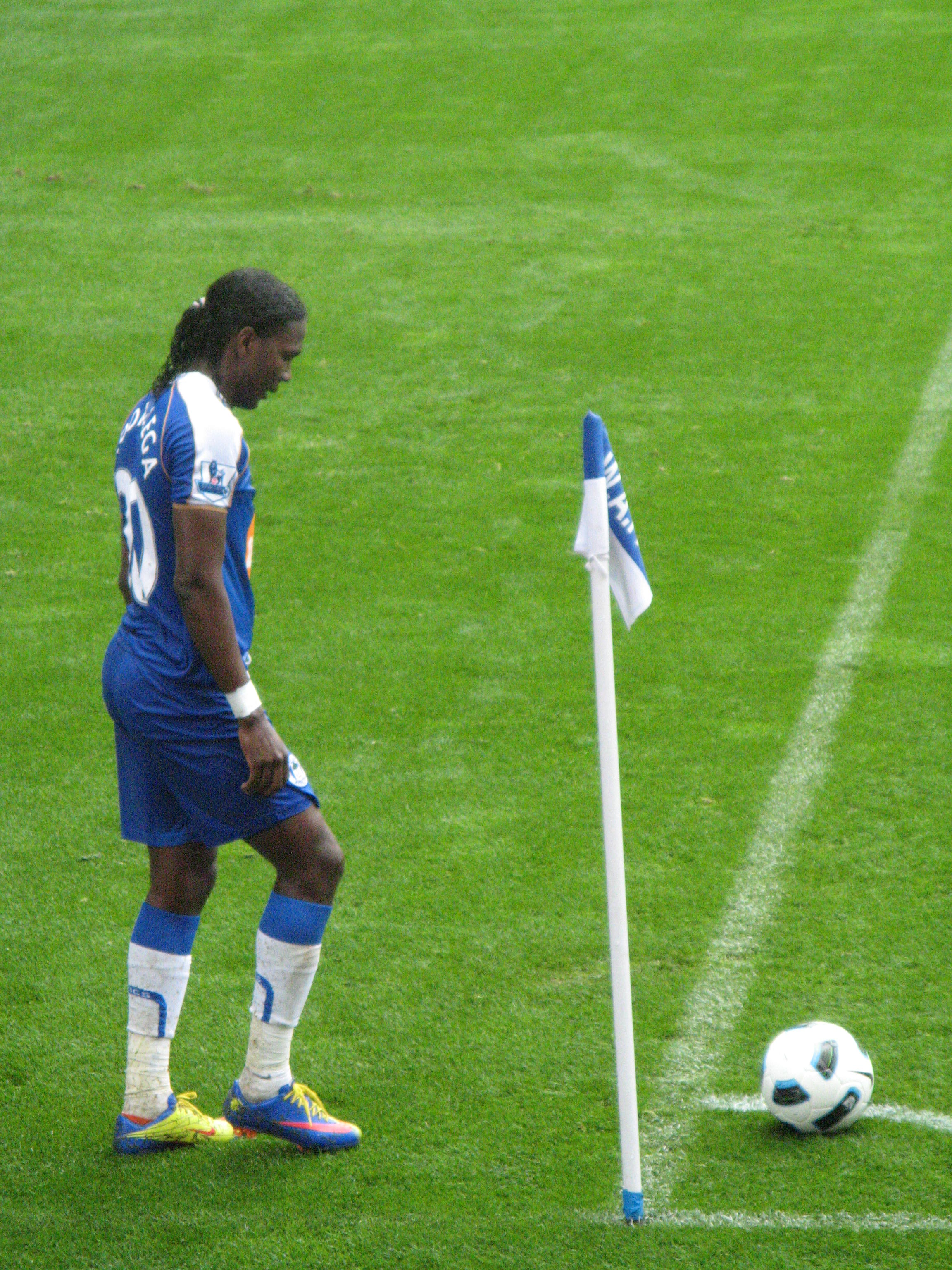 Colombian footballer Hugo Rodallega takes a corner kick, playing for Wigan Athletic during a home match against Manchester City in September 2010.